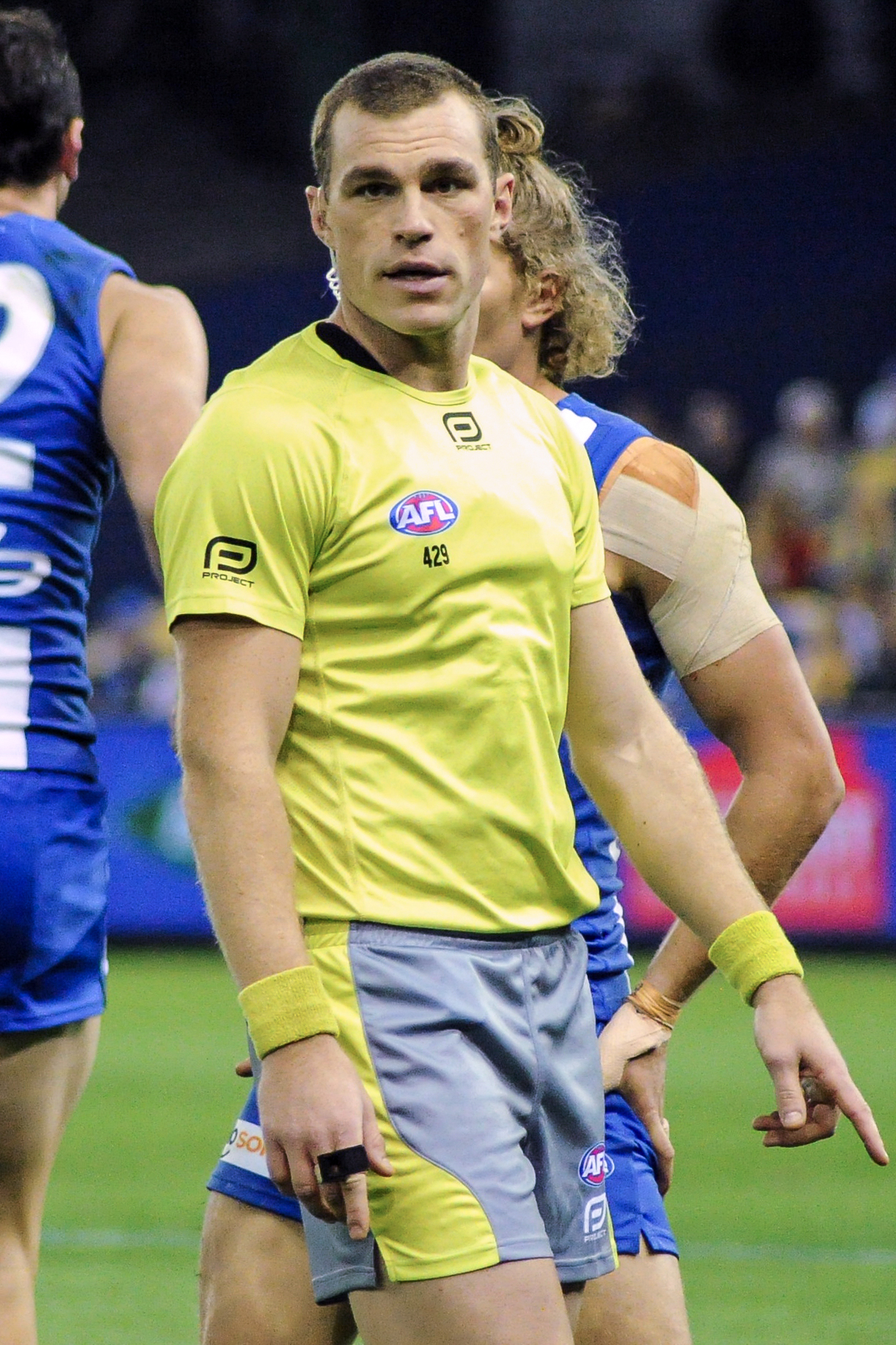 Leigh Fisher during the AFL round six match between North Melbourne and Port Adelaide on Saturday, 28 April 2018 at Etihad Stadium in Melbourne, Victoria.